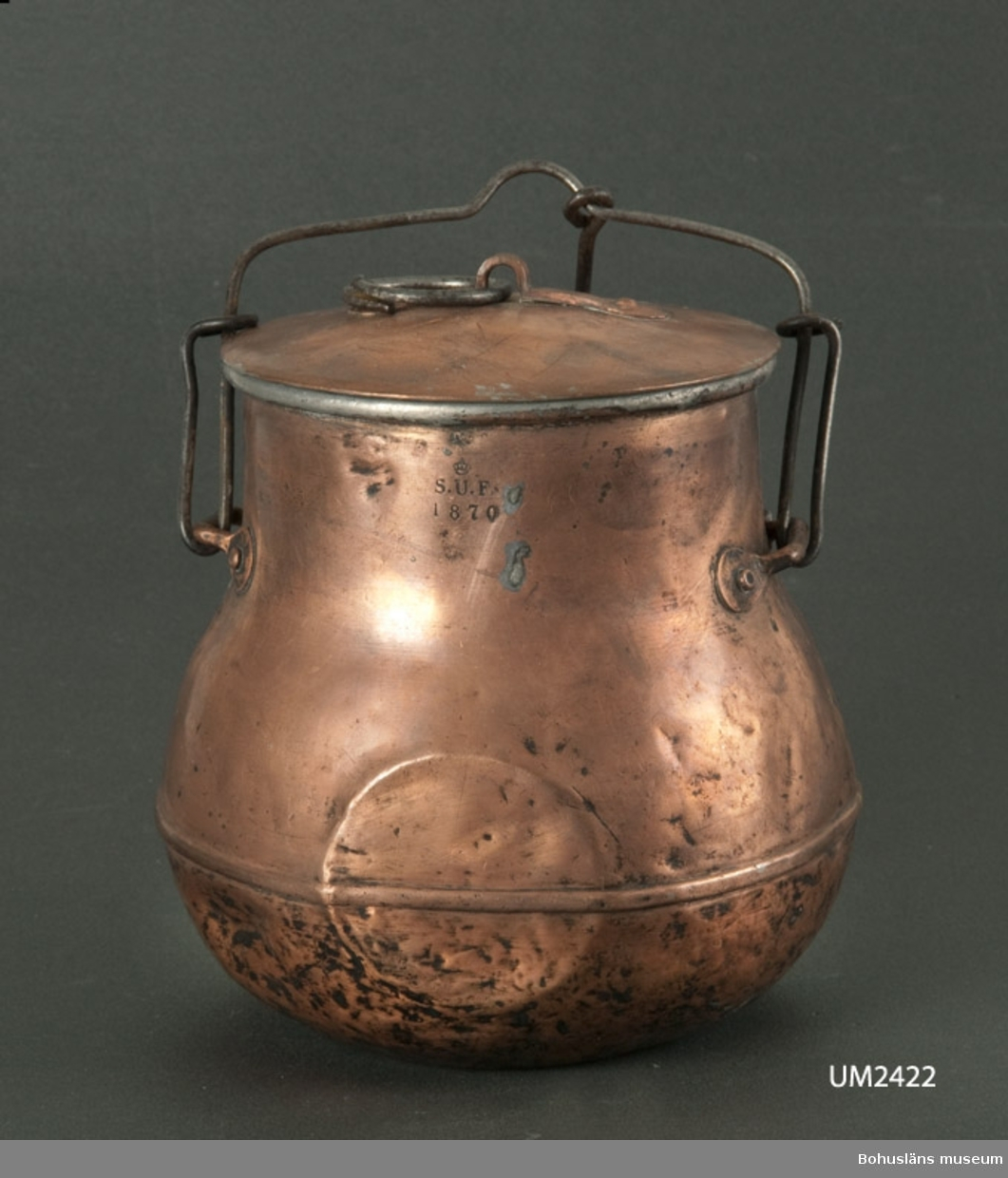 Militärt kokkärl av typ bulkruka.